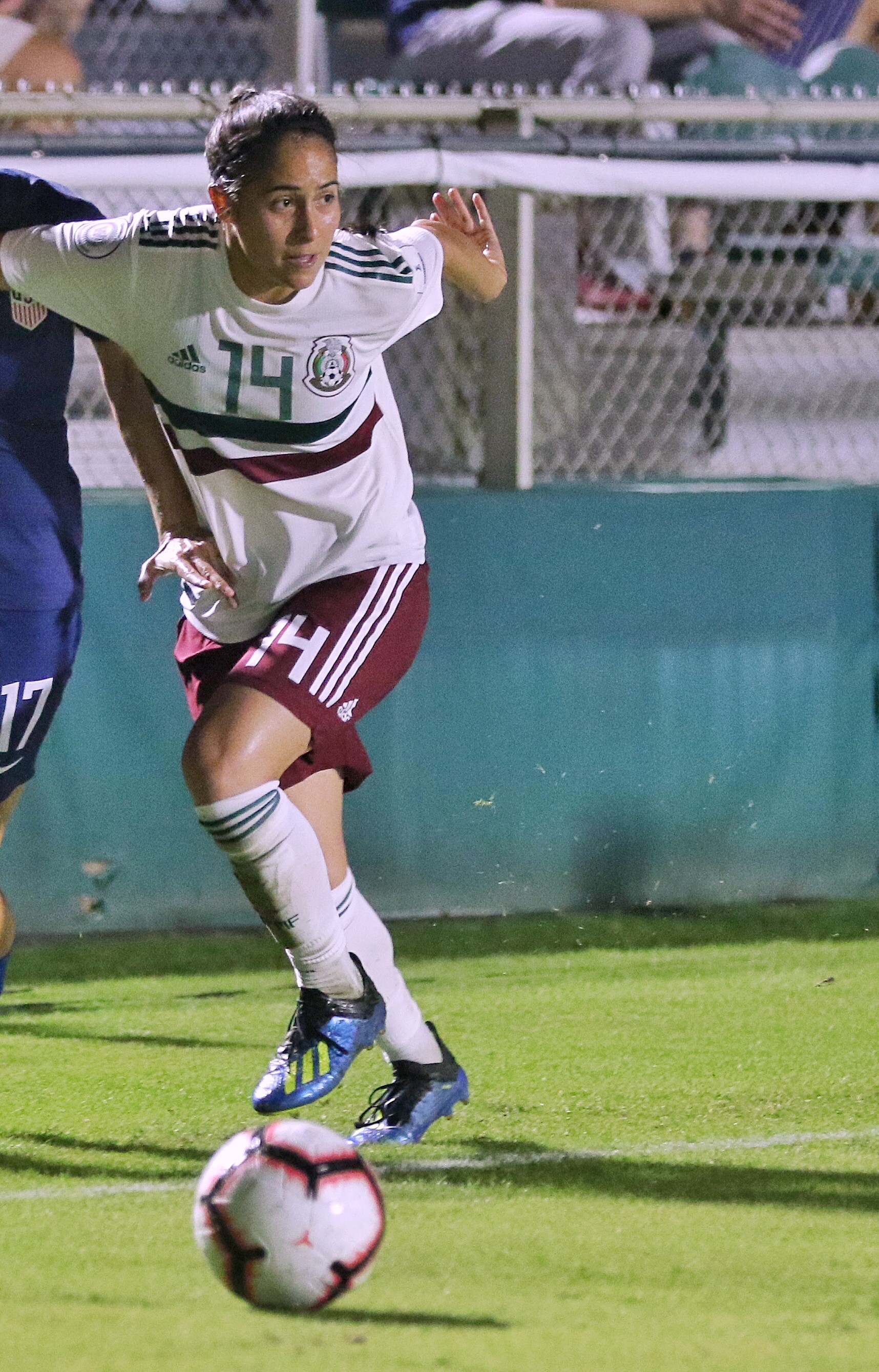 Arianna Romero fighting for the ball in a match between US and Mexico at the 2018 CONCACAF Women's Championship on October 4, 2018.